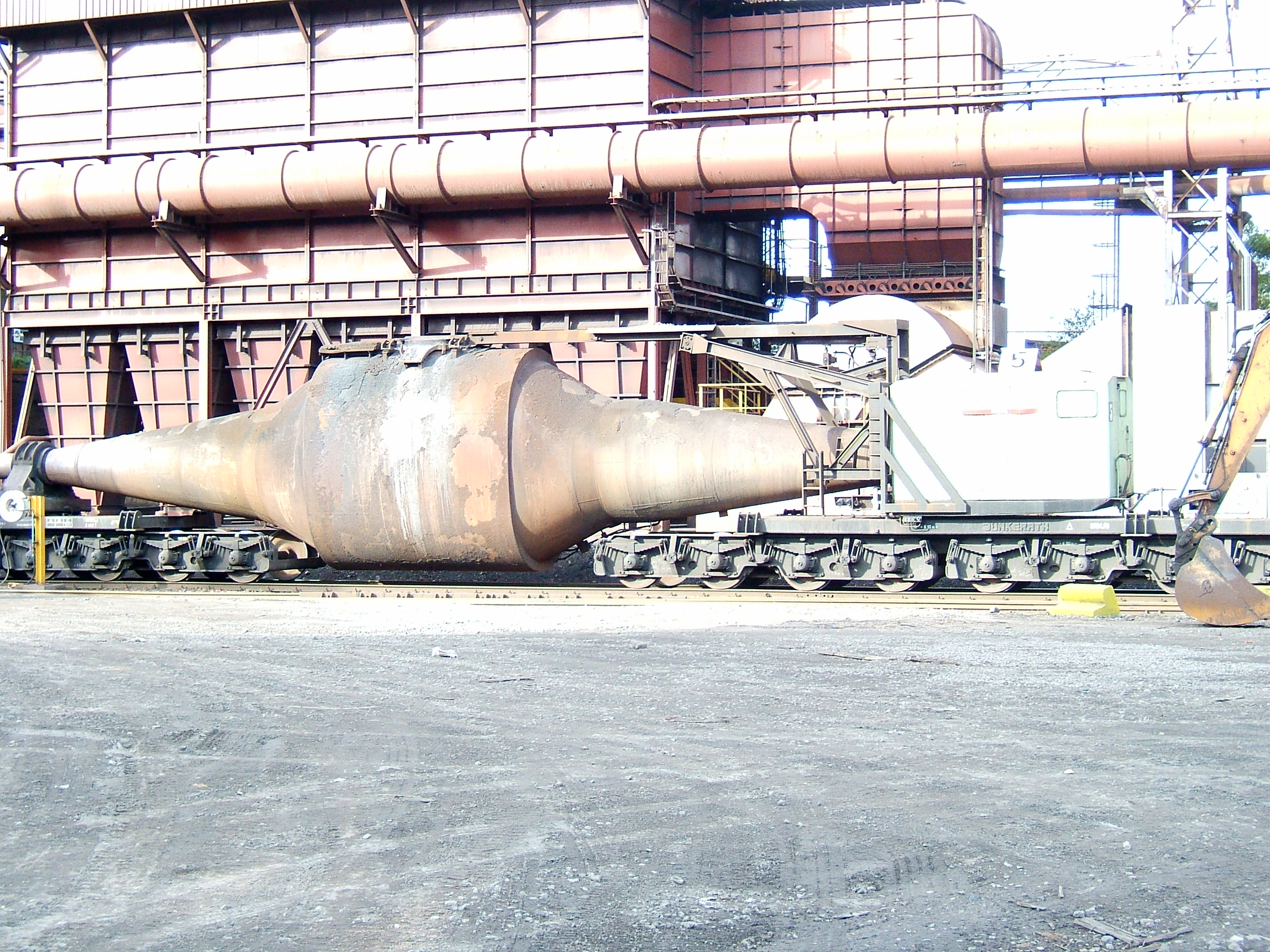 Car for molten pig iron.